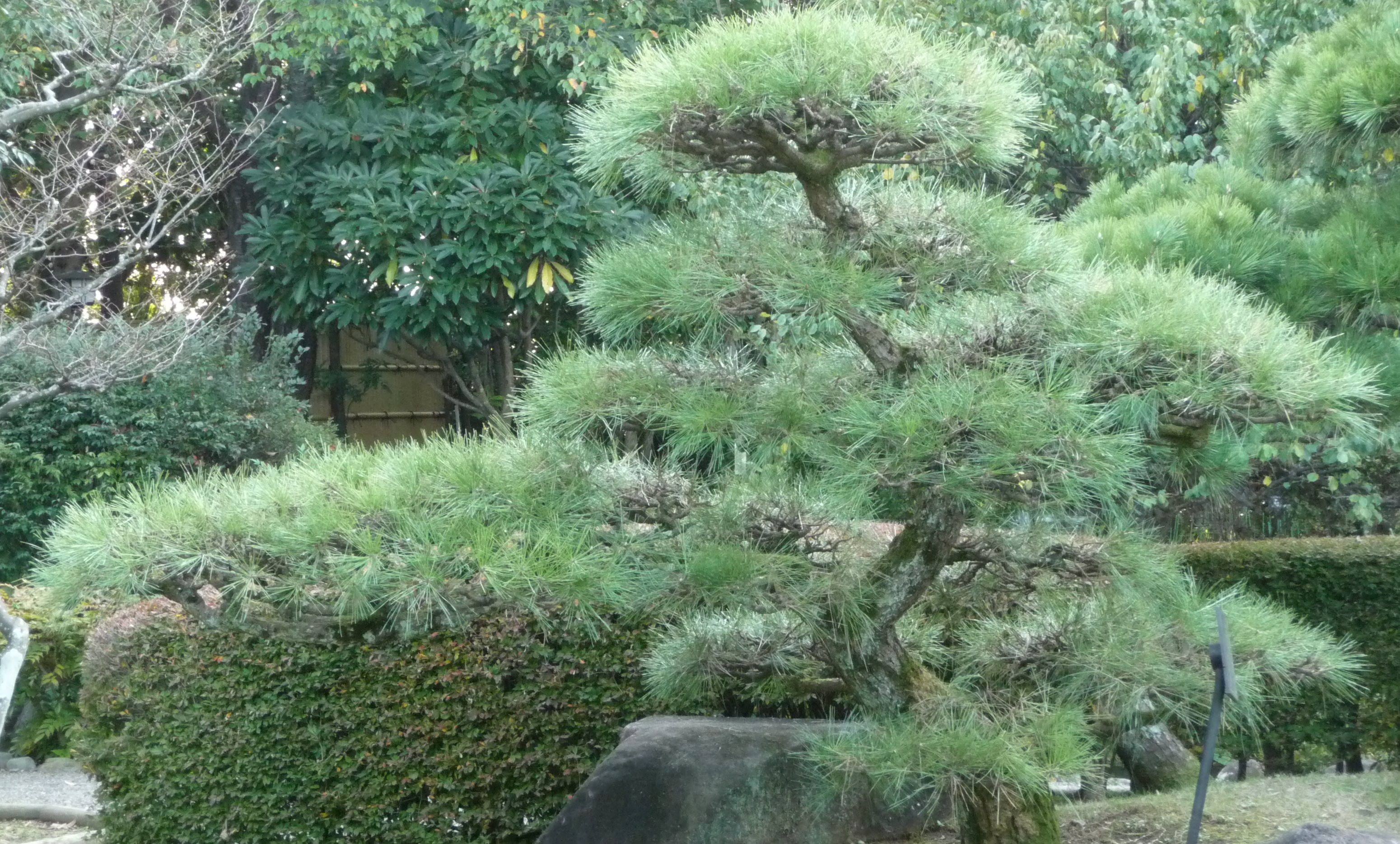 Japanese Black Pine at Manyo botanical garden (万葉植物園) in Ichikawa, Chiba, The tree of City Ichikawa. Photo on 18 October 2009